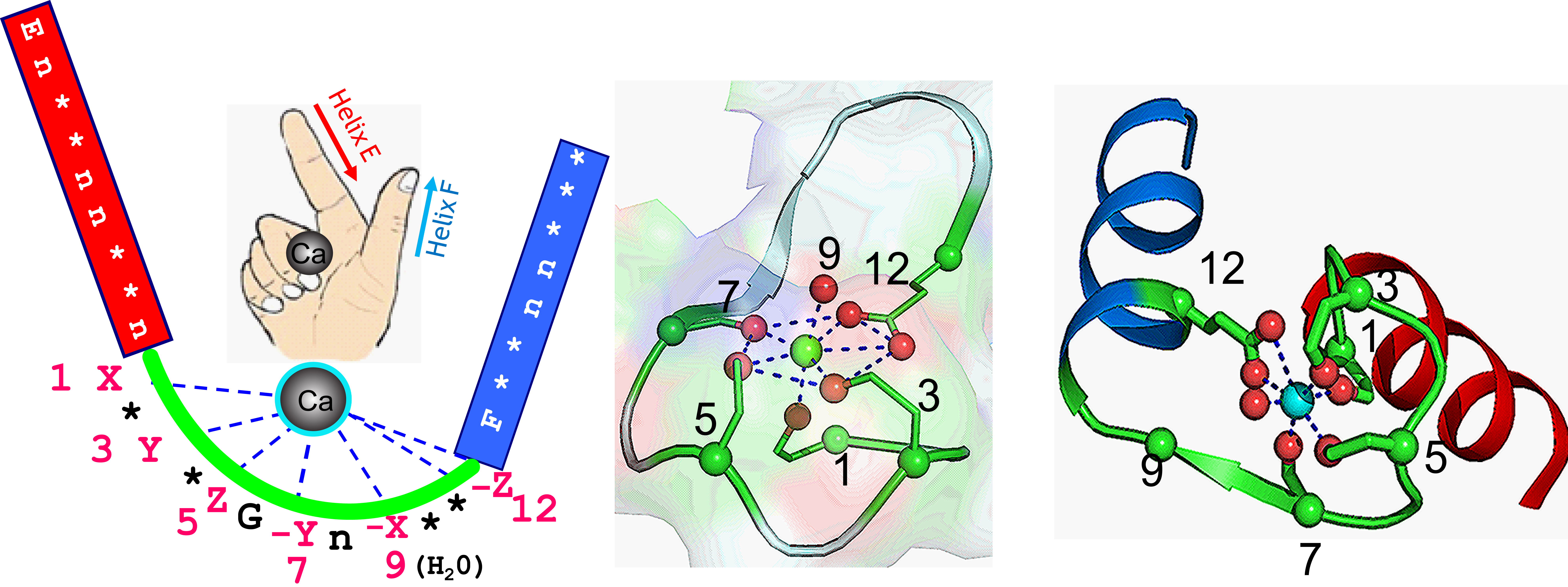 The helix-loop-helix EF-hand Ca2+ binding motif. (left) Cartoon illustration of the canonical EF-hand Ca2+-binding motif. The EF-hand motif contains a 29-residue helix-loop-helix topology, much like the spread thumb and forefinger of the human hand. Ca2+ is coordinated by ligands within the 12-residue loop, including seven oxygen atoms from the sidechain carboxyl or hydroxyl groups (loop sequence positions 1, 3, 5, 12), a main chain carbonyl group (position 7), and a bridged water (via position 9). Residue at position 12 serves as a bidentate ligand. (middle) The Ca2+ binding pocket adopts a pentagonal bipyramidal geometry. n stands for hydrophobic residue. (right) 3D structure of a typical canonical EF-hand motif from calmodulin (PDB code: 3cln). Ca3D structure of a typical canonical EF-hand motif from calmodulin (PDB code: 3cln). Ca3D structure of a typical canonical EF-hand motif from calmodulin (PDB code: 3cln). Calcium is chelated by ligands from a 12-residue loop.